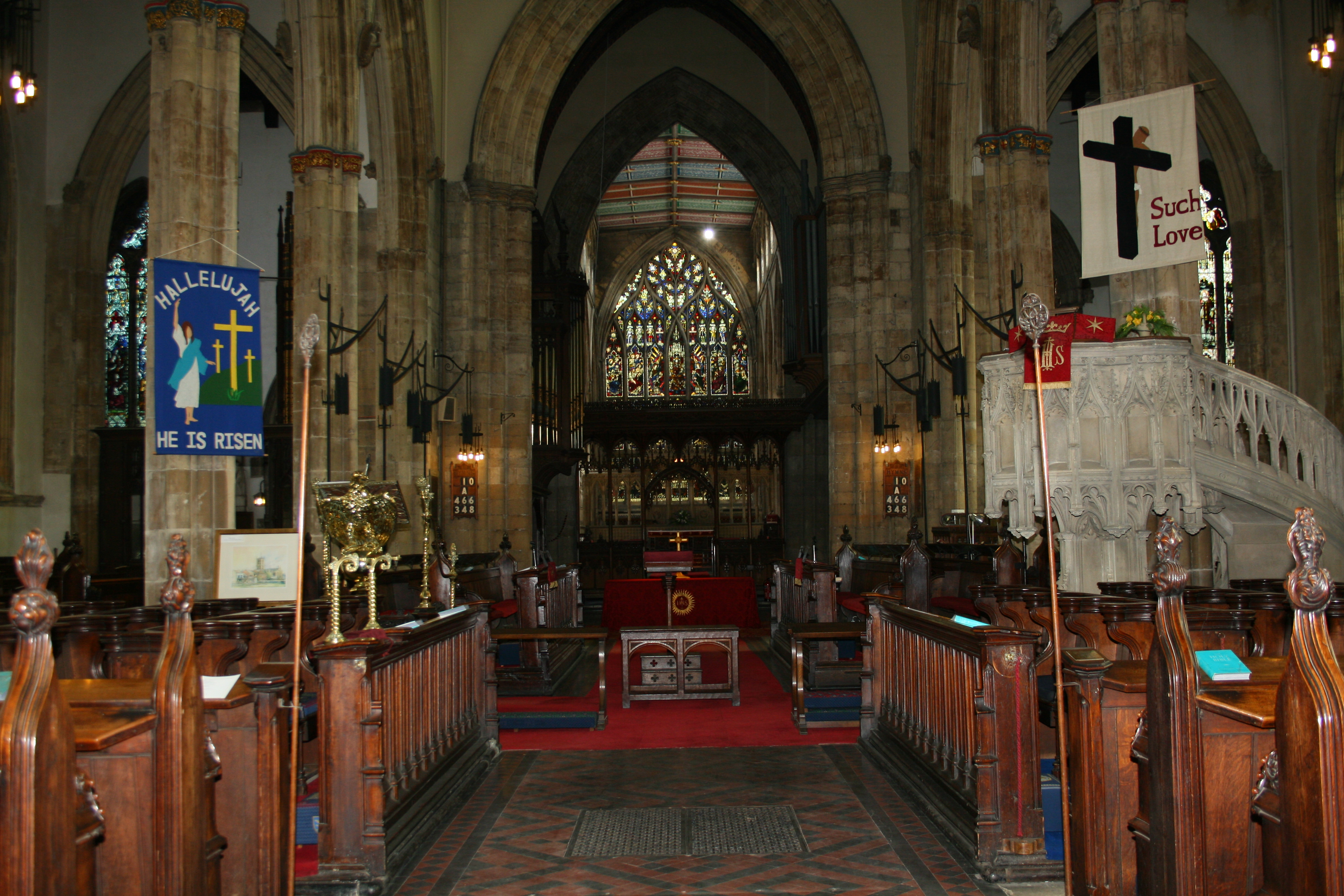 Photo's of Hull The alter, Holy Trinity Church, Hull